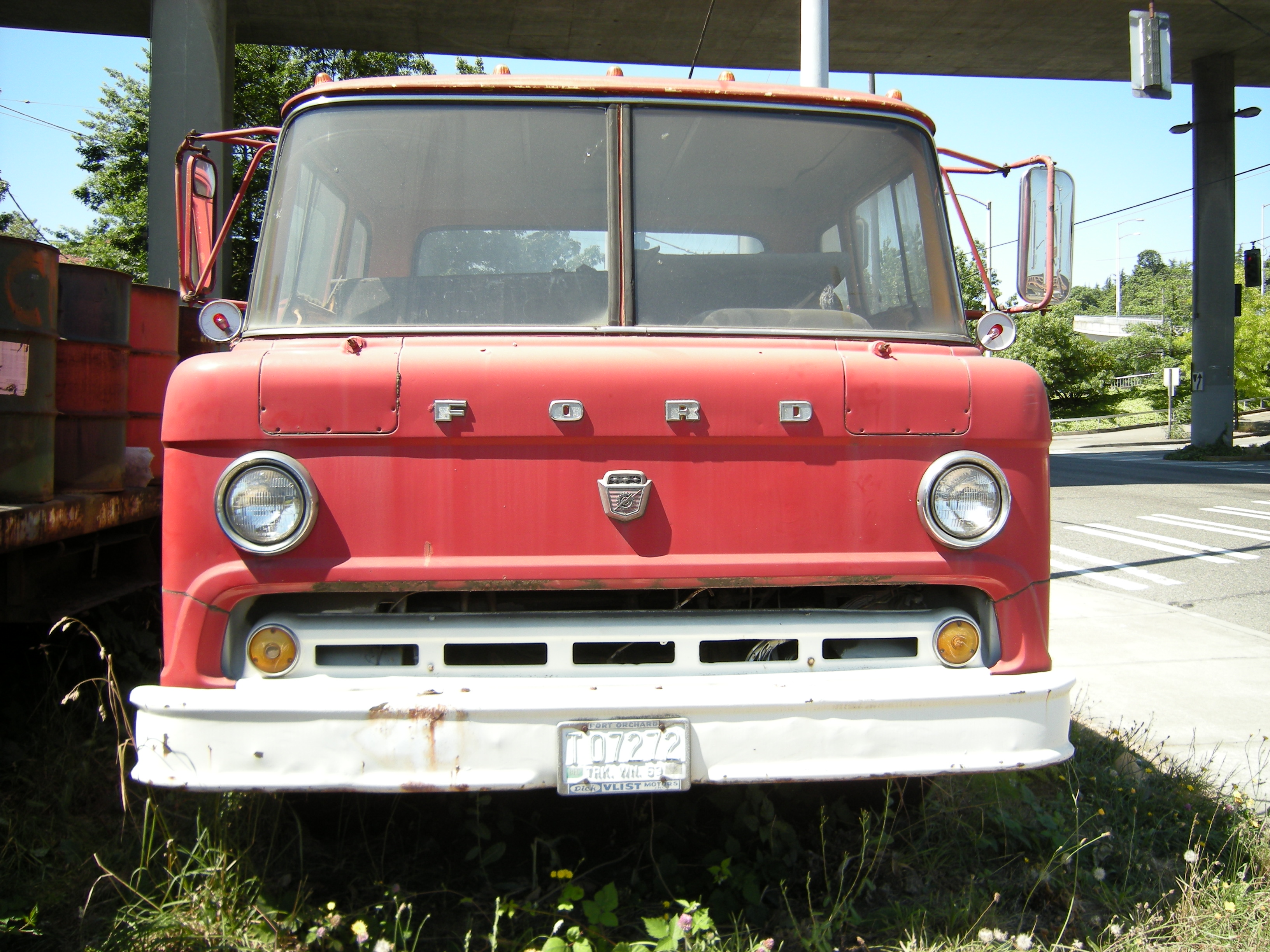 A rather beaten-up Ford 800 Custom Cab, photographed at All Metal Co., Georgetown, Seattle, Washington. Year of vehicle unknown, but I'd guess 1960s.